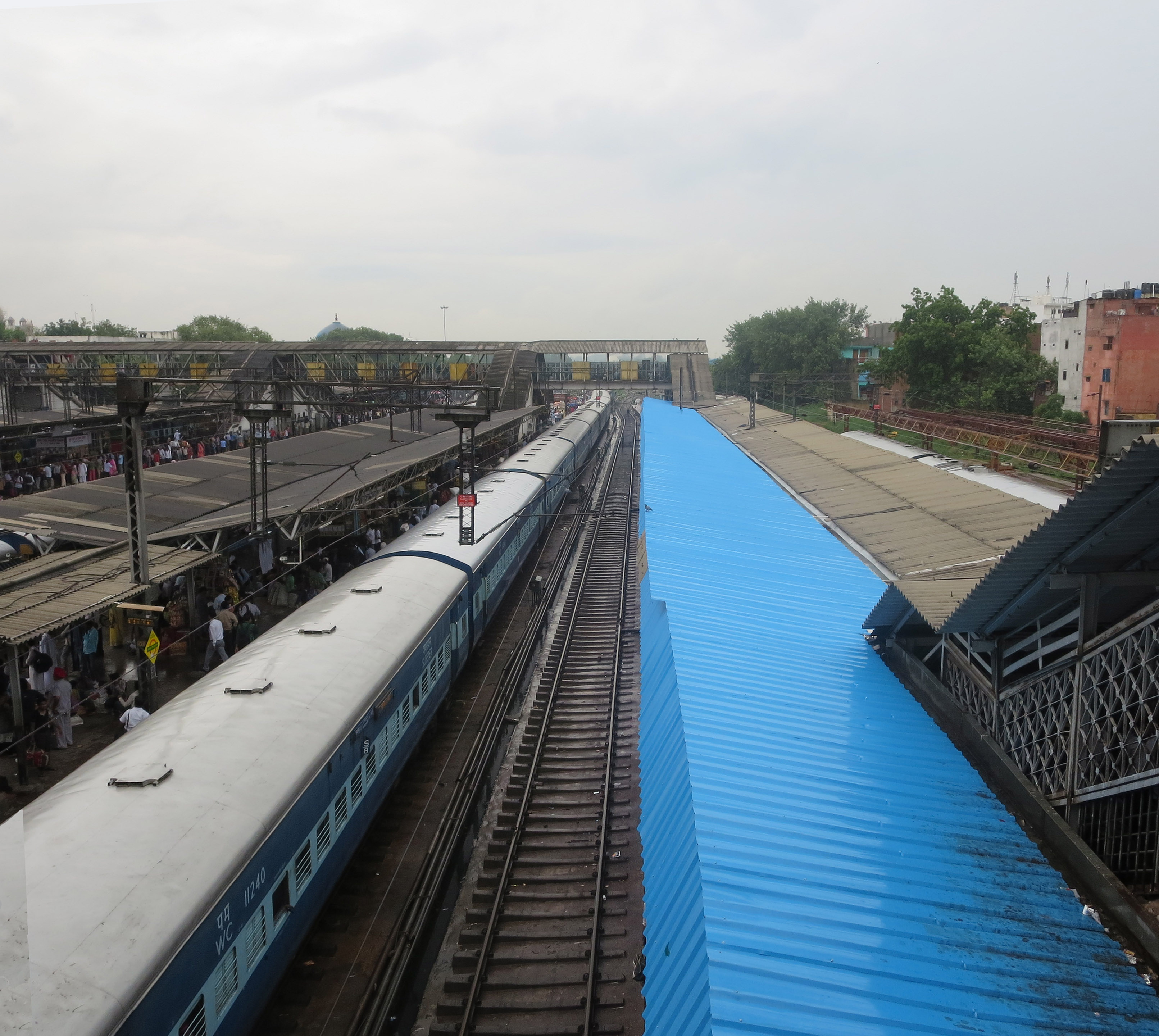 Nizamuddin railway station